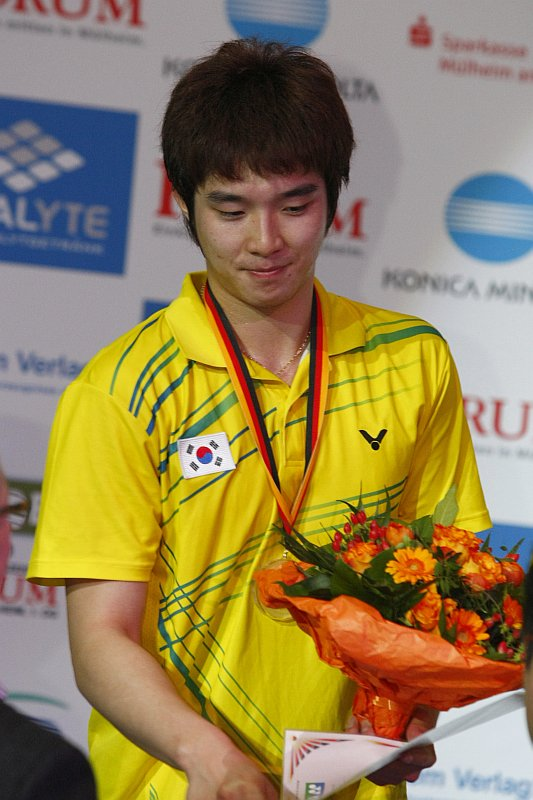 Kim Gi Jung